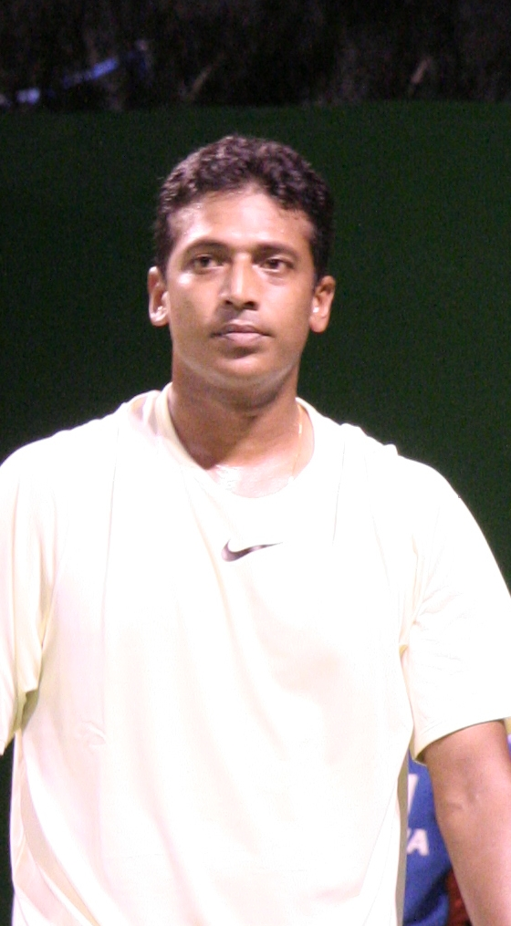 Mahesh Bhupathi at the 2007 Australian Open, during his first-round men's doubles match, partnering Radek Stepanek.